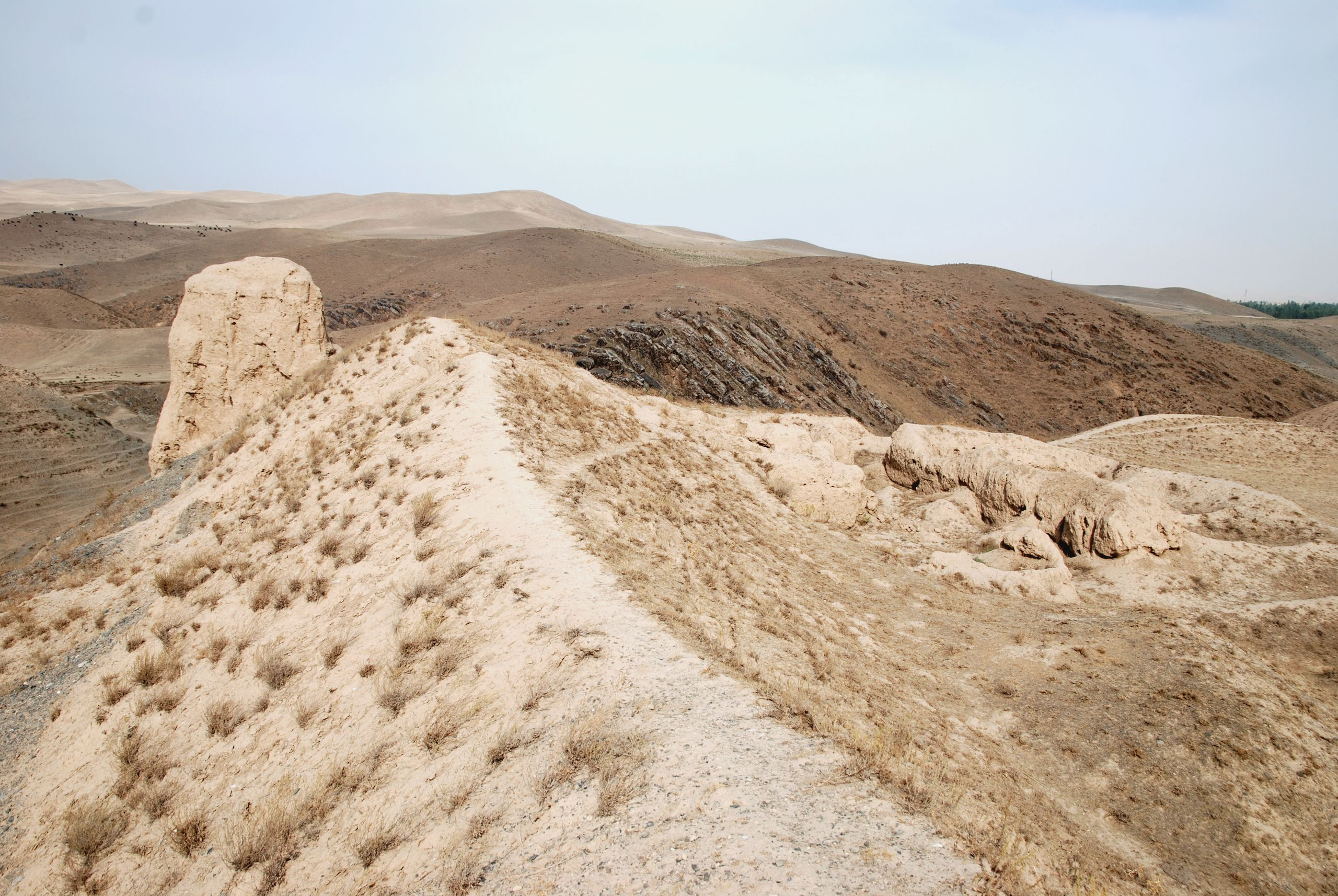 Bunjikat, Kala-i Kahkaha 1, southwest corner